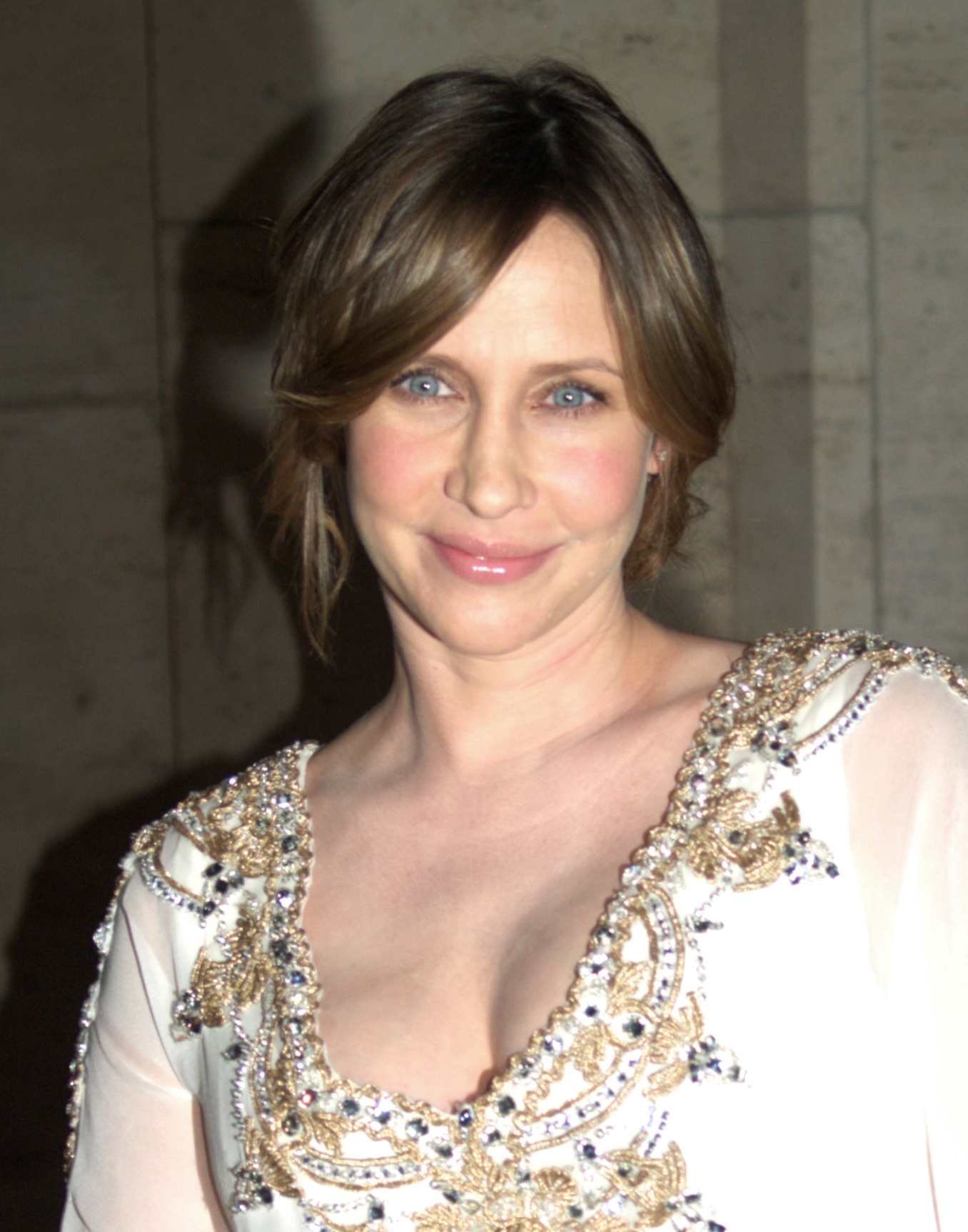 Vera Farmiga at Metropolitan Opera's 2010-11 Season Opening Night - "Das Rheingold"